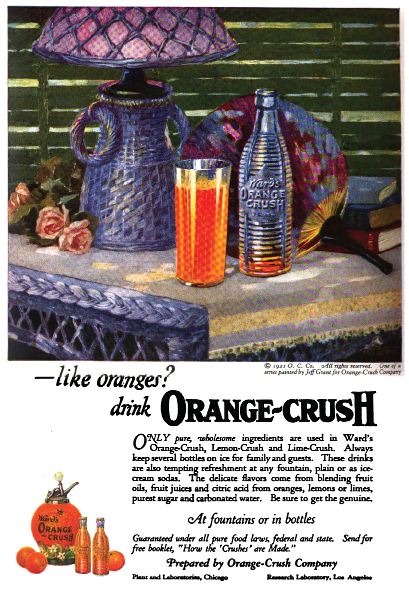 An advertisement for Orange Crush, a product of Blyth, Eastman Dillon & Co.